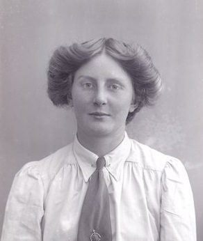 Charlotte Marsh 1911. This picture was taken by Colonel Linley Blathwayt and was stored on glass negatives. The Blathwayt's home of Eagle House way the home of Linley, Emily and Mary Blathwayt who all actively supported the suffragette cause. Nearly all the prominient UK suffragettes stayed with them and these photos and dozens of trees were planted to commemorate their visits. Col. Linley Blathwayt took these pictures between 1908 and 1912. He died in 1919. The pictures are made available in larger formats by .